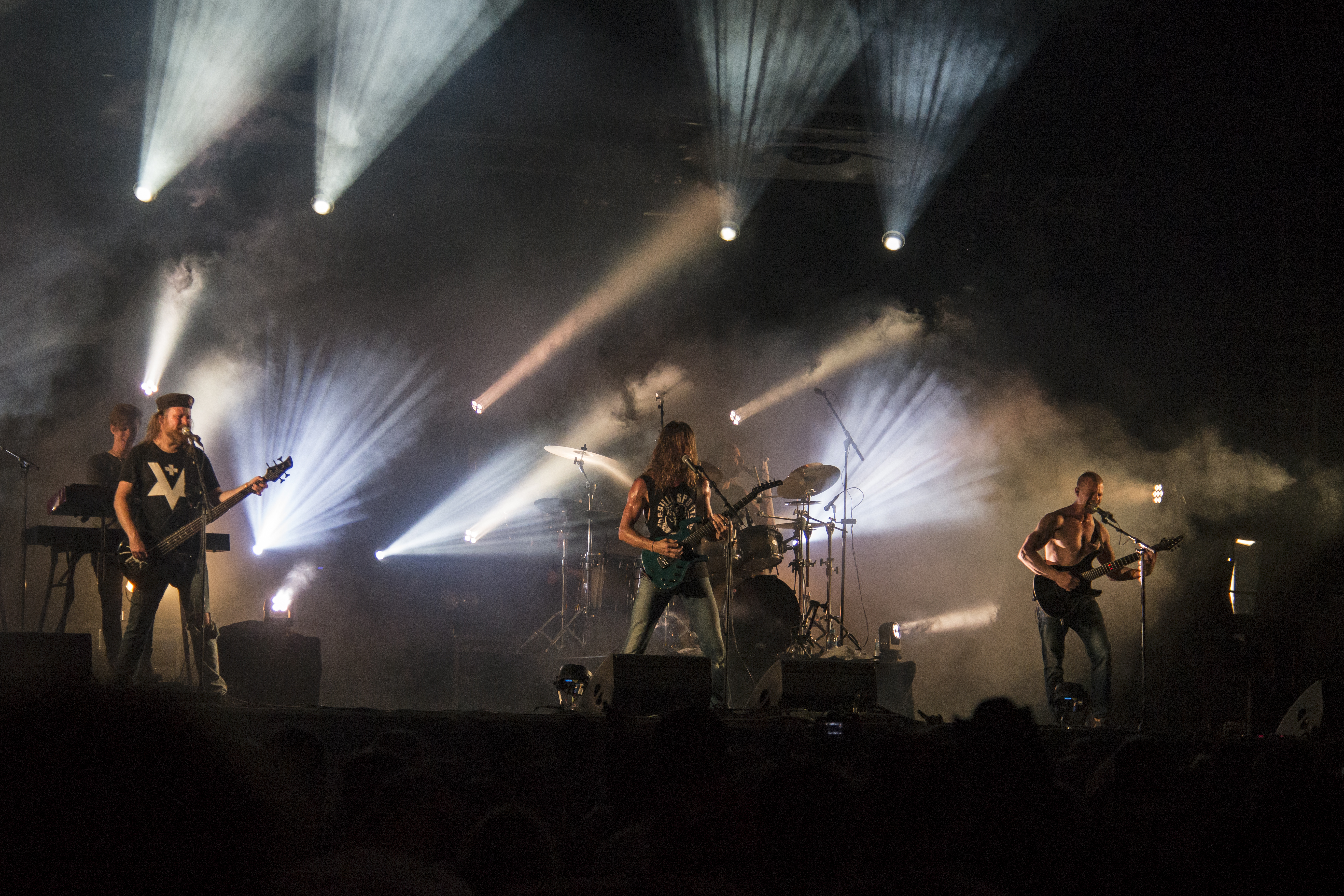 Pain of Salvation show, 2017 Hellfest, France.